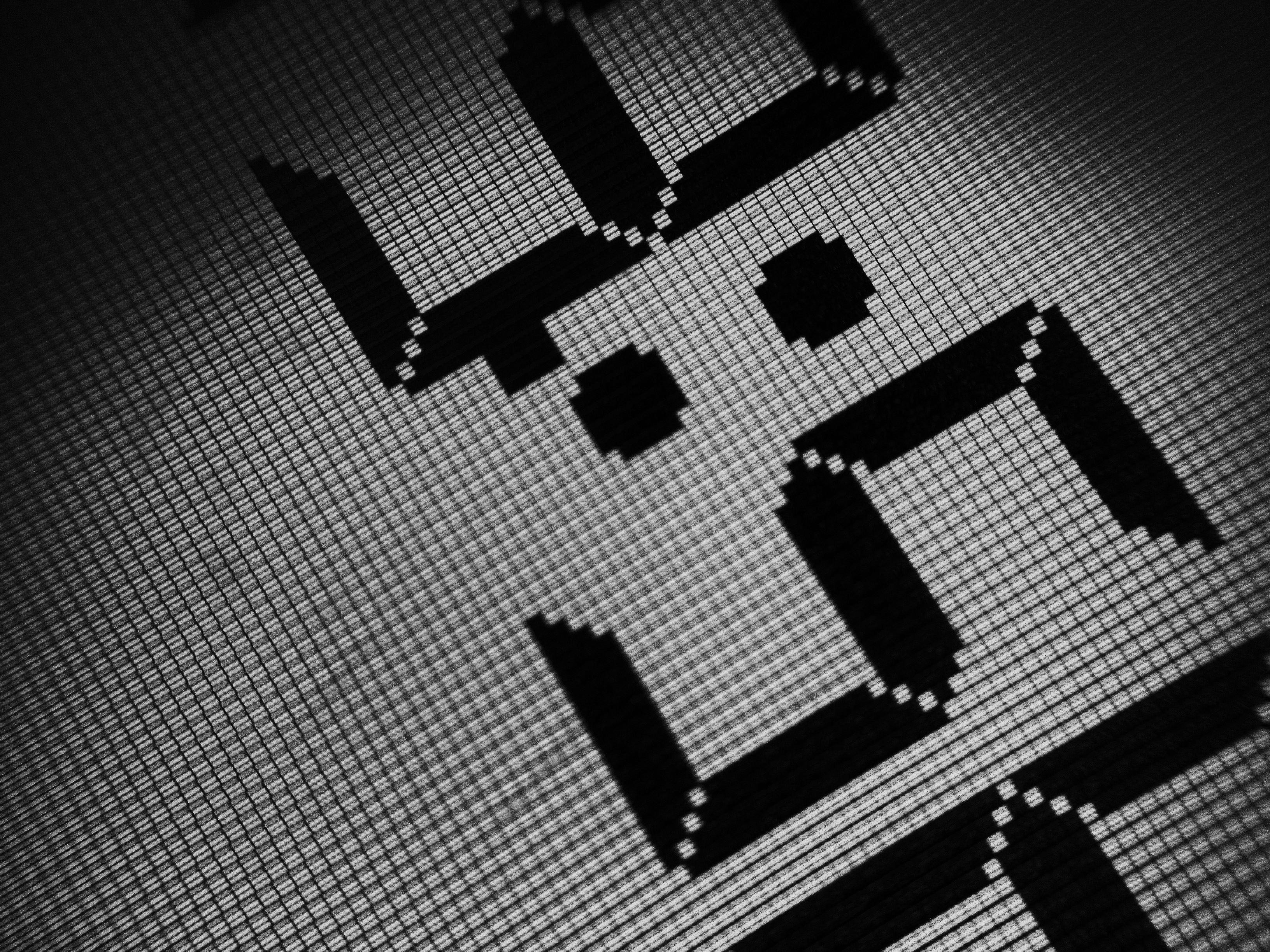 9:58 on an LCD closeup